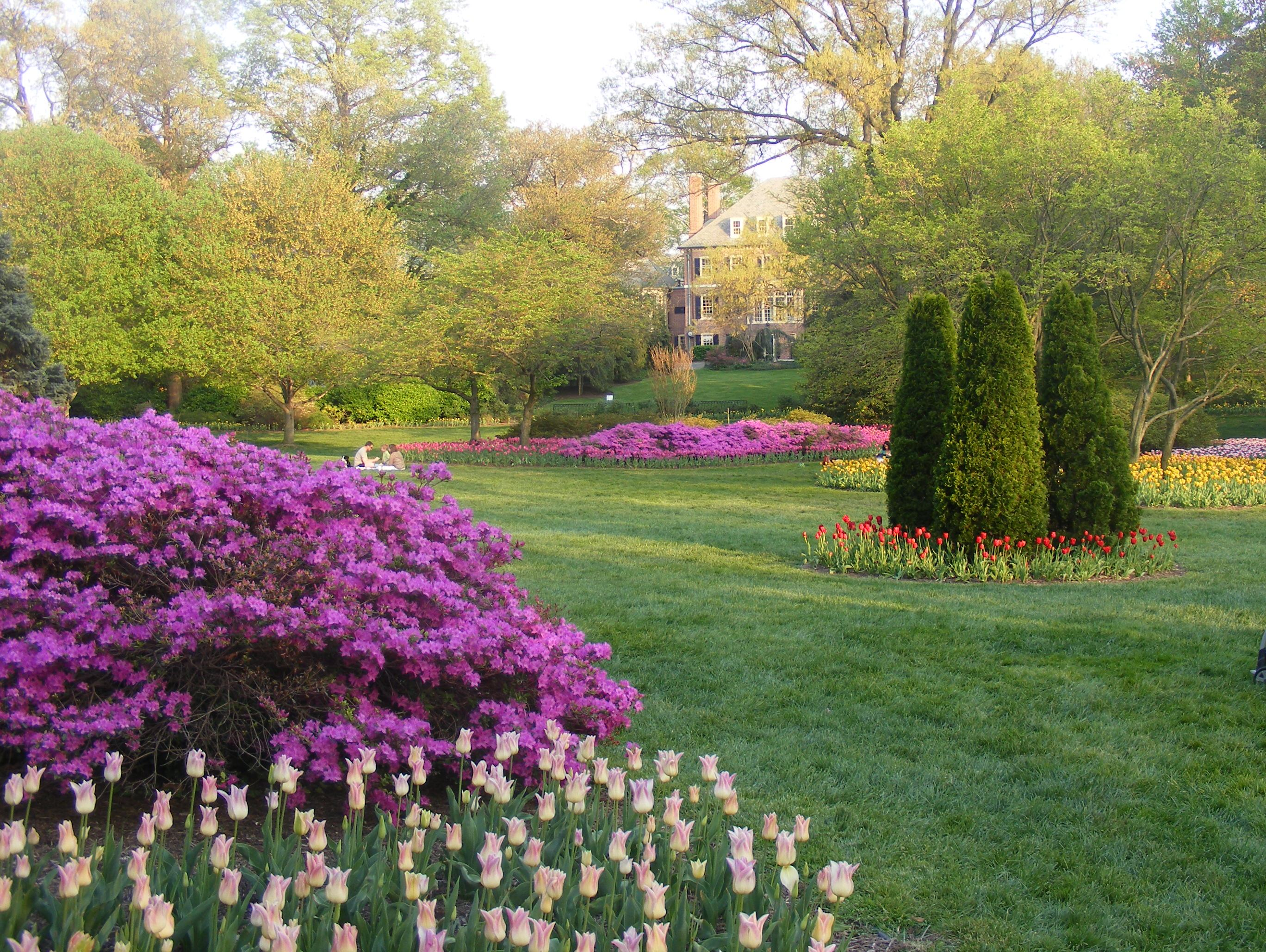 Sherwood Gardens in Guilford Community Baltimore